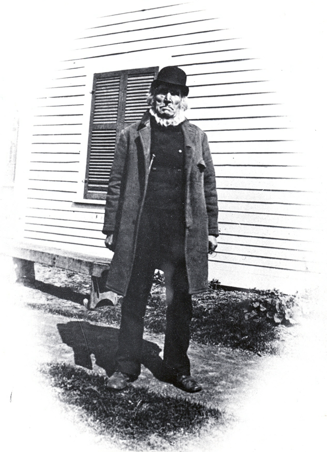 Peter Wickblom i Bishop Hill-kolonin, Illinois, USA i början av 1900-talet.